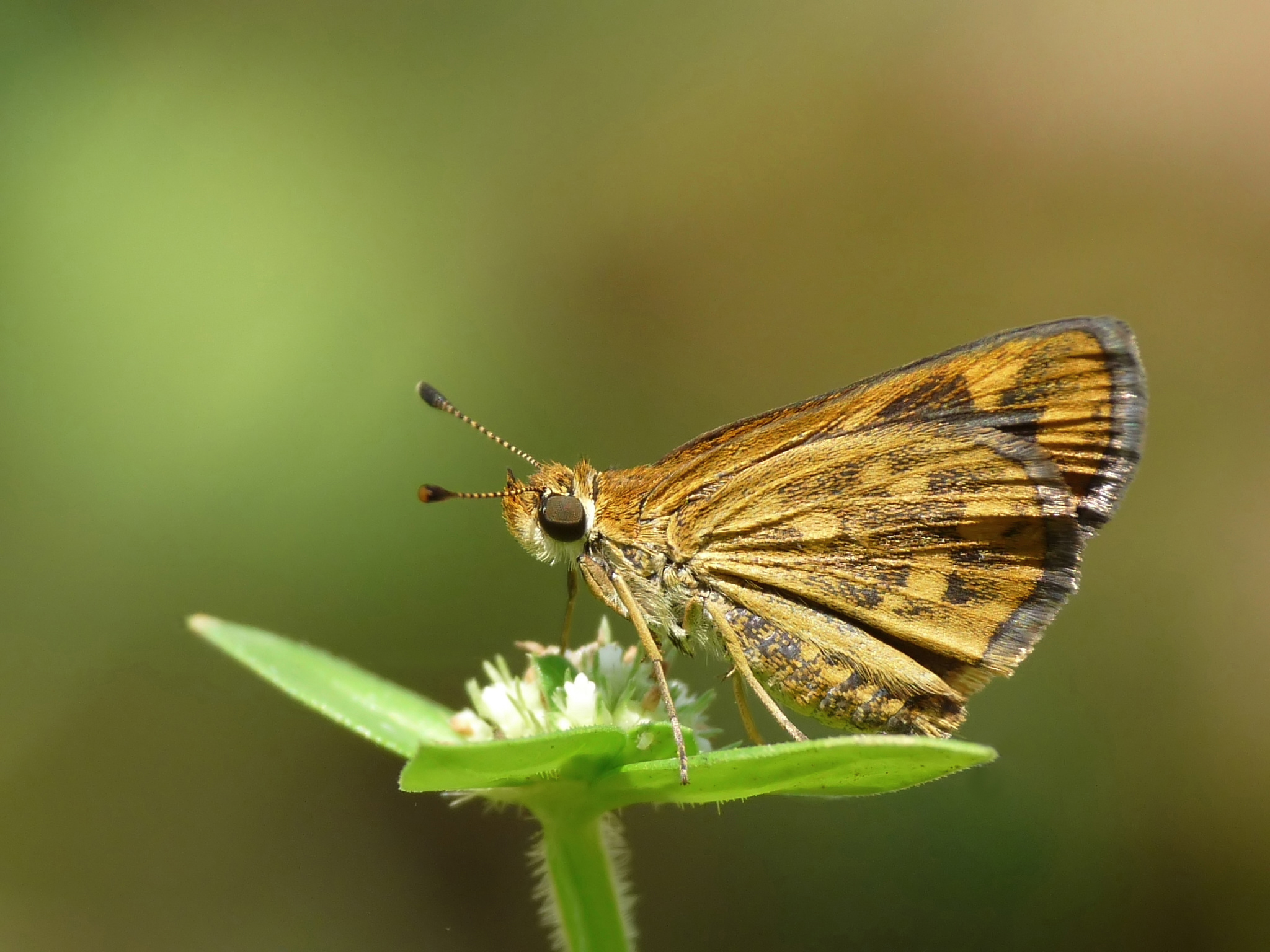 Taractrocera ceramas, commonly known as the Tamil Grass Dart, is a butterfly belonging to the family Hesperiidae. It is found from the western Ghats to Bombay, in the hills of southern India and northern Burma. Taken at Kadavoor, Kerala, India.